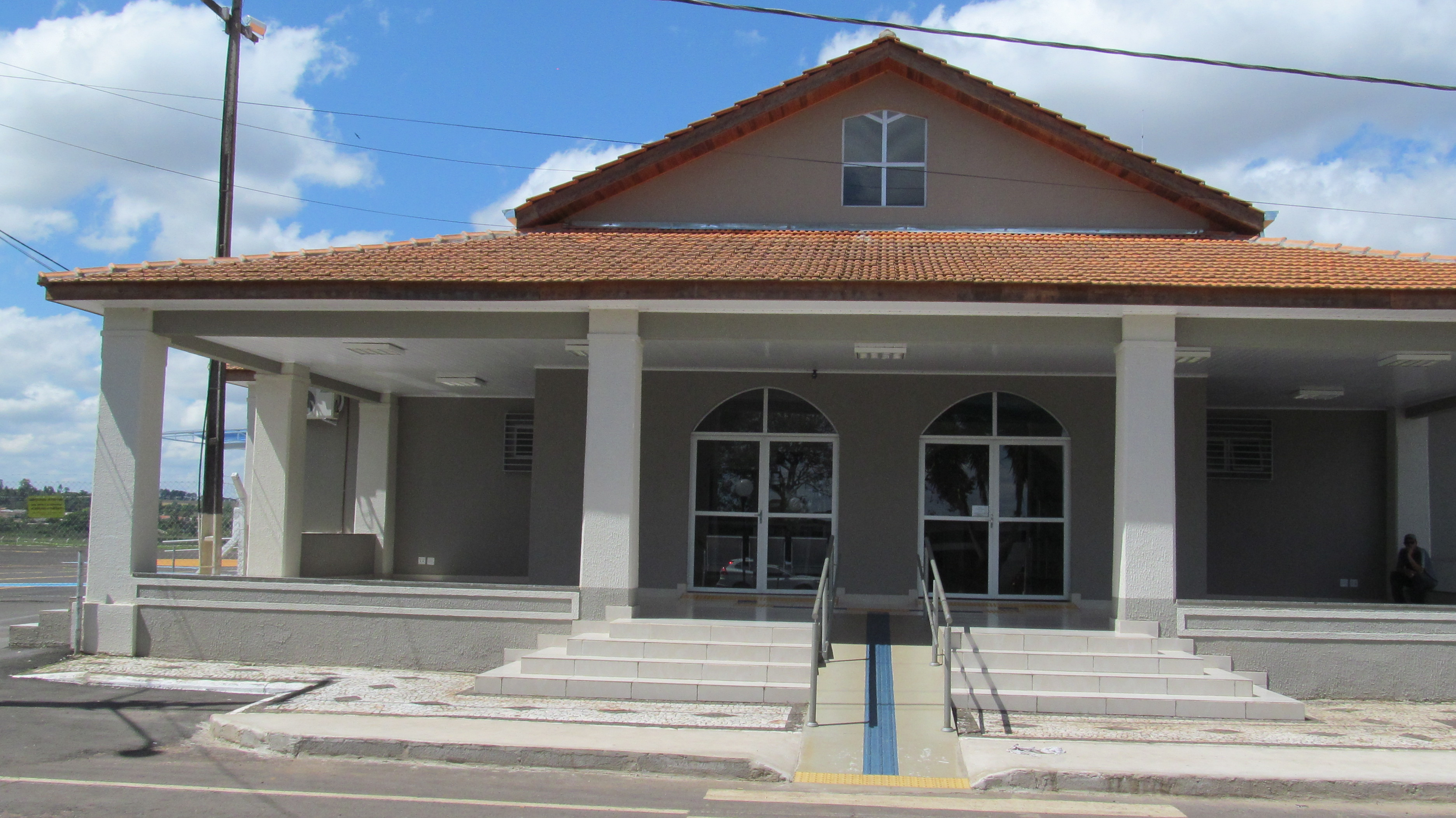 Building of Ponta Grossa Airport (PGZ), Paraná, Brazil